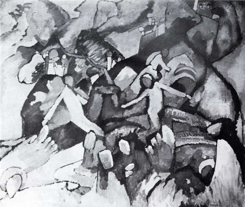 According to a note in the artist’s records, Composition I was completed in January 1910. The painting, part of the Otto Ralfs art collection in Brunswick, was destroyed during World War II by a British air raid on that city on the night of October 14, 1944. The painting is known now only through this black and white photograph, taken in 1912 for the catalog of an exhibition in which the work was exhibited.